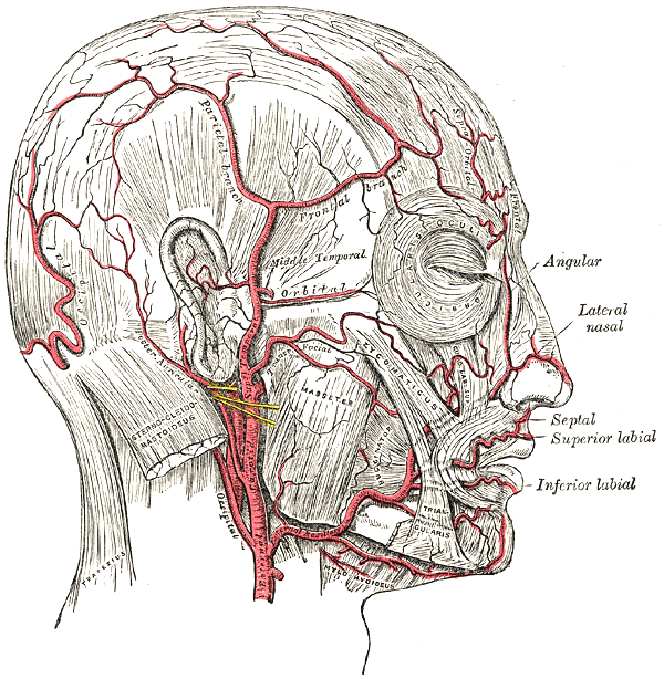 Arteries of the head, Gray's Anatomy